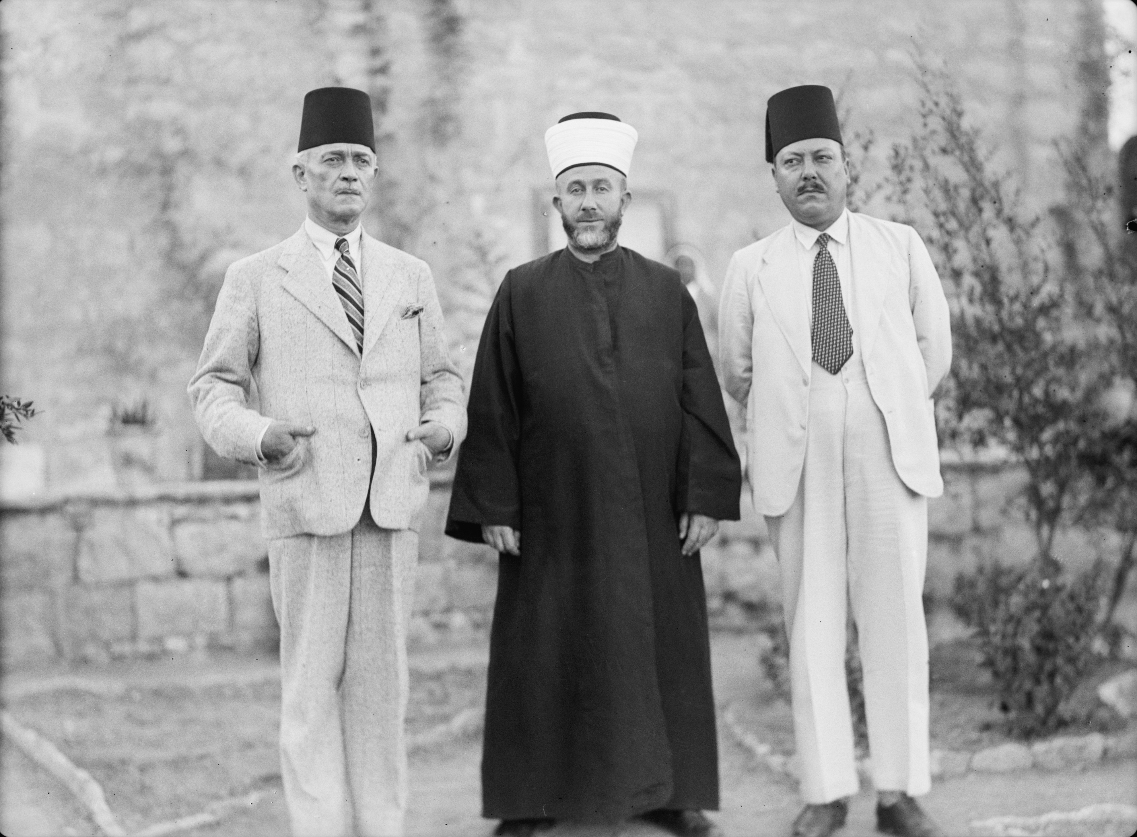 Title: Palestine disturbances 1936. Members of the Arab Higher Committee. Left to right: Ex Mayor, Grand Mufti & present Mayor, i.e. Ragheb Bey Nashashibi, Haj Amin eff. el-Husseini and Dr. Hsein Khaldhi Abstract/medium: G. Eric and Edith Matson Photograph Collection Physical description: 1 negative